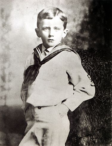 James Joyce in 1888 at age six. Possibly in Bray, a seaside resort south of Dublin. The Joyces lived there from 1887 to 1892.